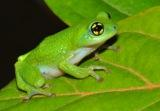 Bubble nest frog